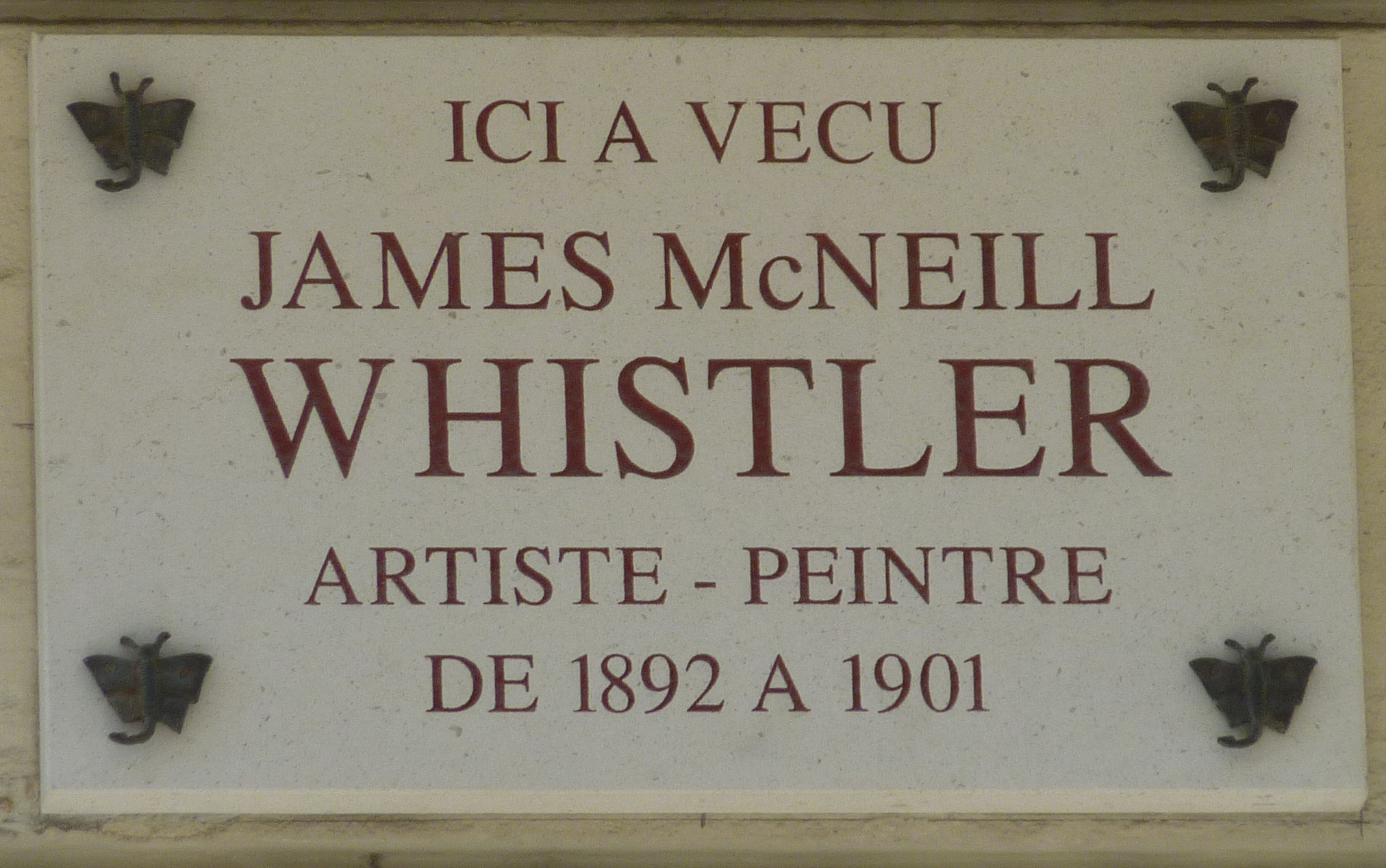 Read about this famous American-born artist here